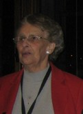 Eileen Paisley, nee Cassells - wife of Ian Paisley, Sr.